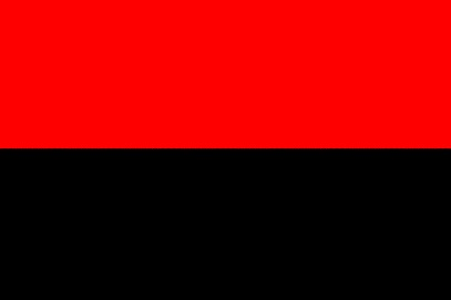 Arise of Tamil Nationalism